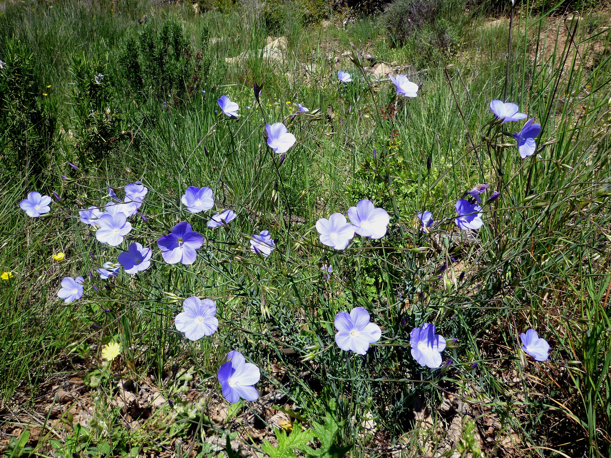 Linum narbonense. In Torà (Segarra- Catalunya). On 570 m. altitude